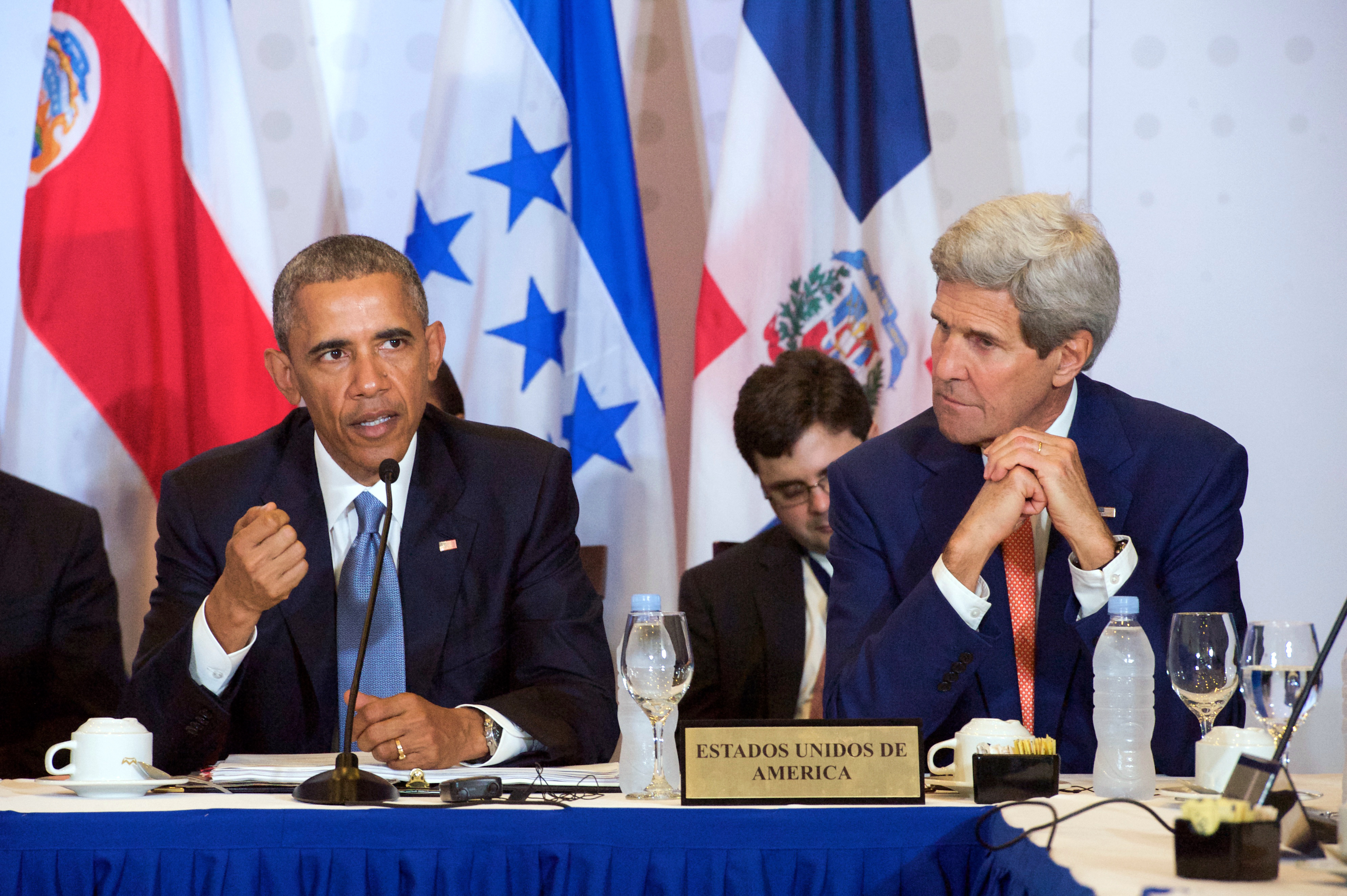 U.S. Secretary of State John Kerry listens as President Obama addresses a SICA (Central American Integration System) Heads of State Meeting on the sidelines of the Summit of the Americas in Panama City, Panama, on April 10, 2015. [State Department photo/ Public Domain]